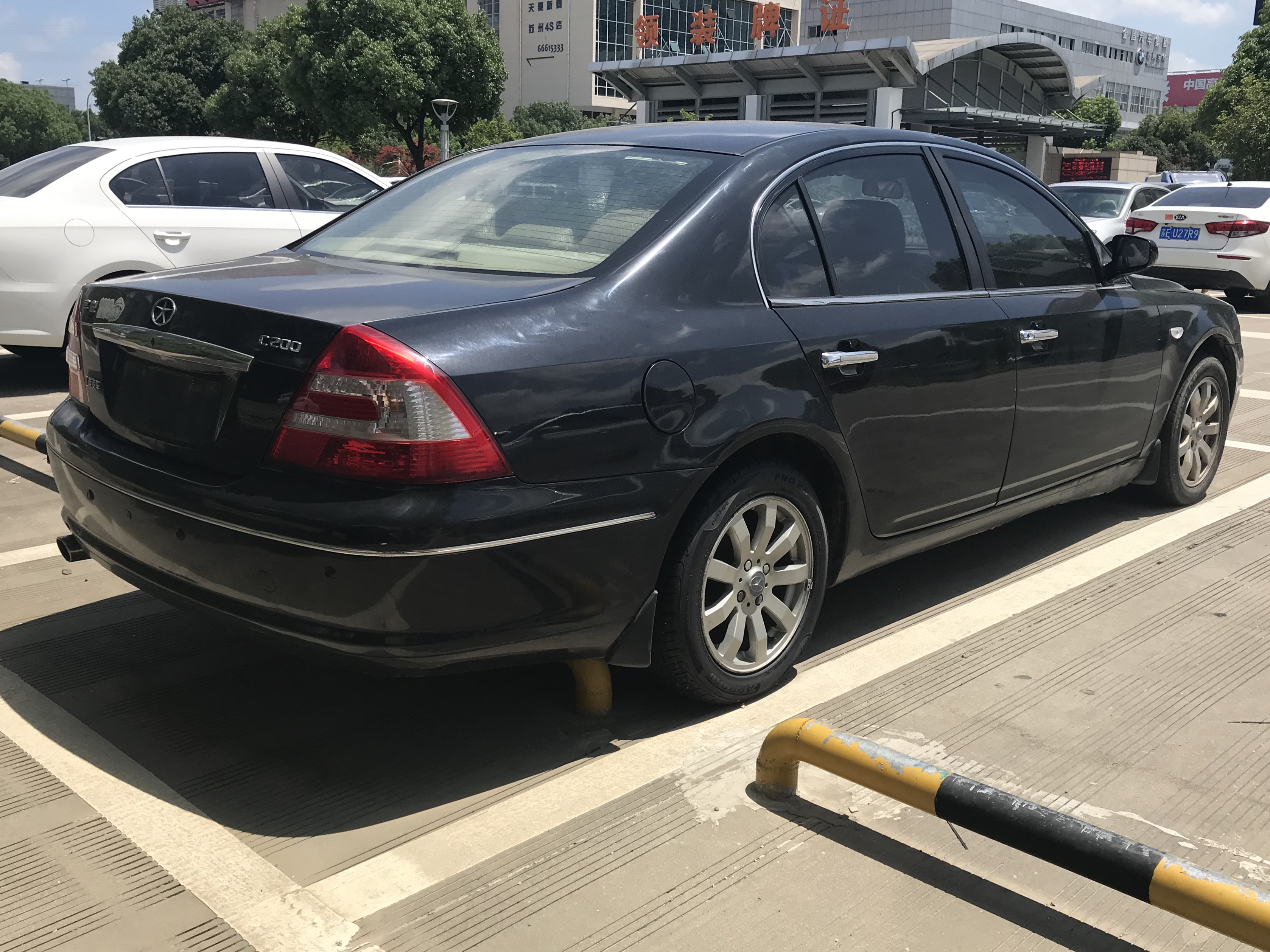 JAC Binyue/ Binjoy C200 (JAC J7) sedan in Suzhou